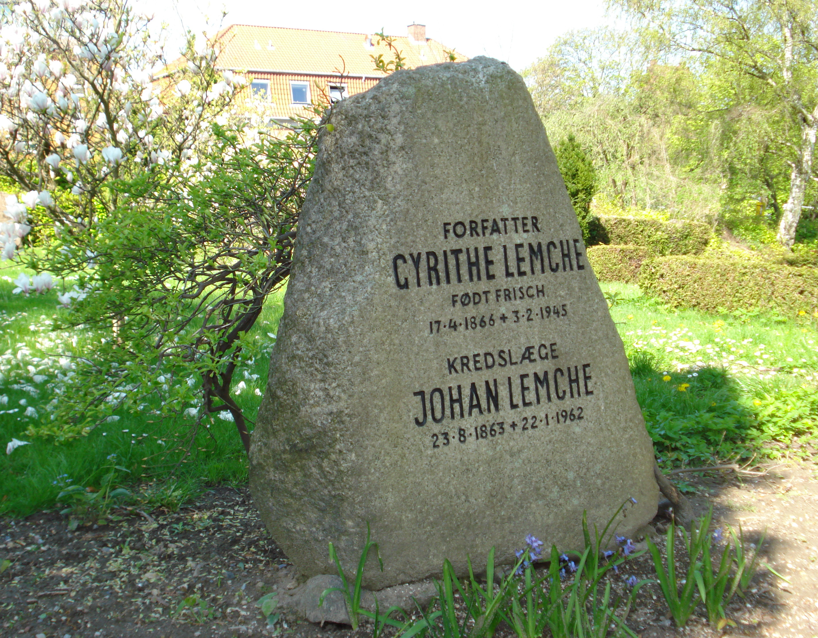 Forfatterinden Gyrithe Lemche og ægtemands gravsten på Lyngby Assistens Kirkegård. (Danish writer Gyrithe Lemche and husbond gravestone on Lyngby Churchyard)